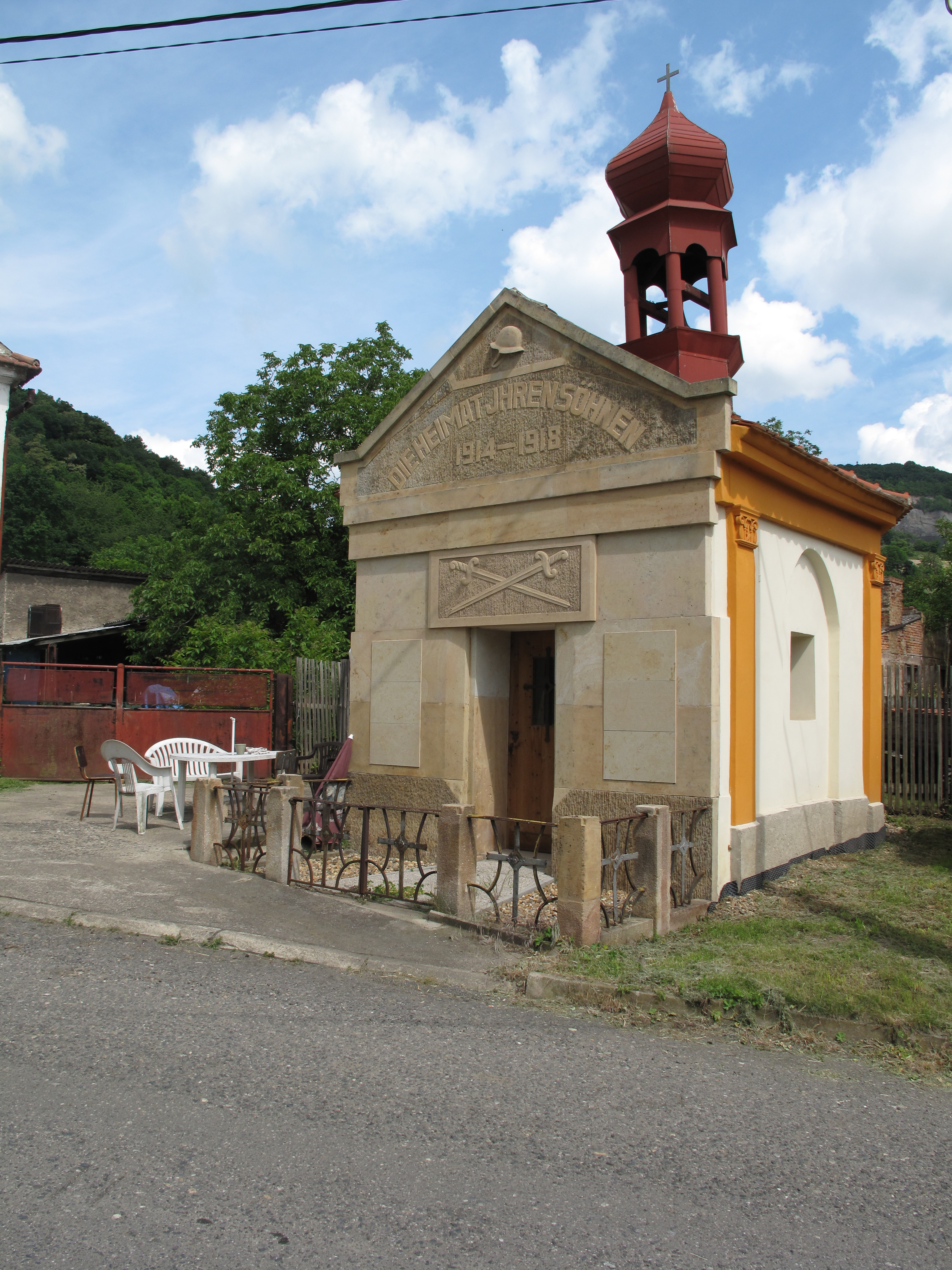 Chapel at Dobkovičky village, Litoměřice District, Czech Republic.